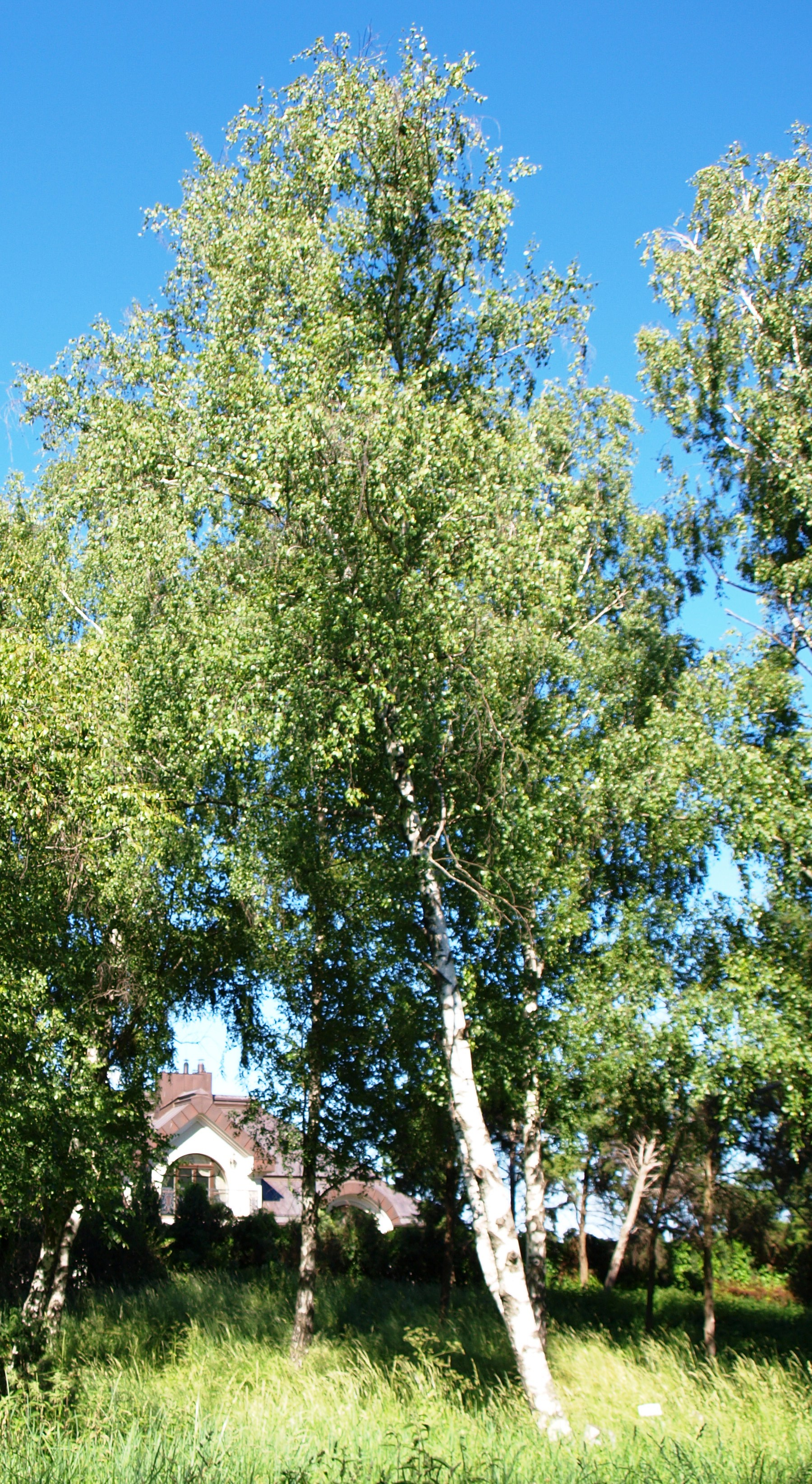 Betula populifolia in National M. M. Grishko botanical garden (Kiev)